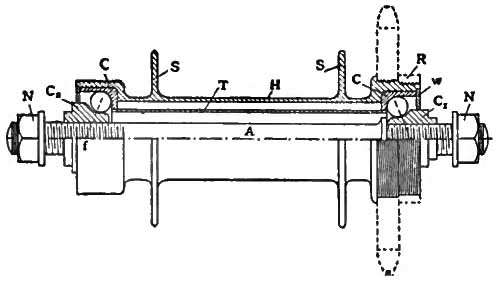 Line drawing of a cross-section of the hub of a bicycle.